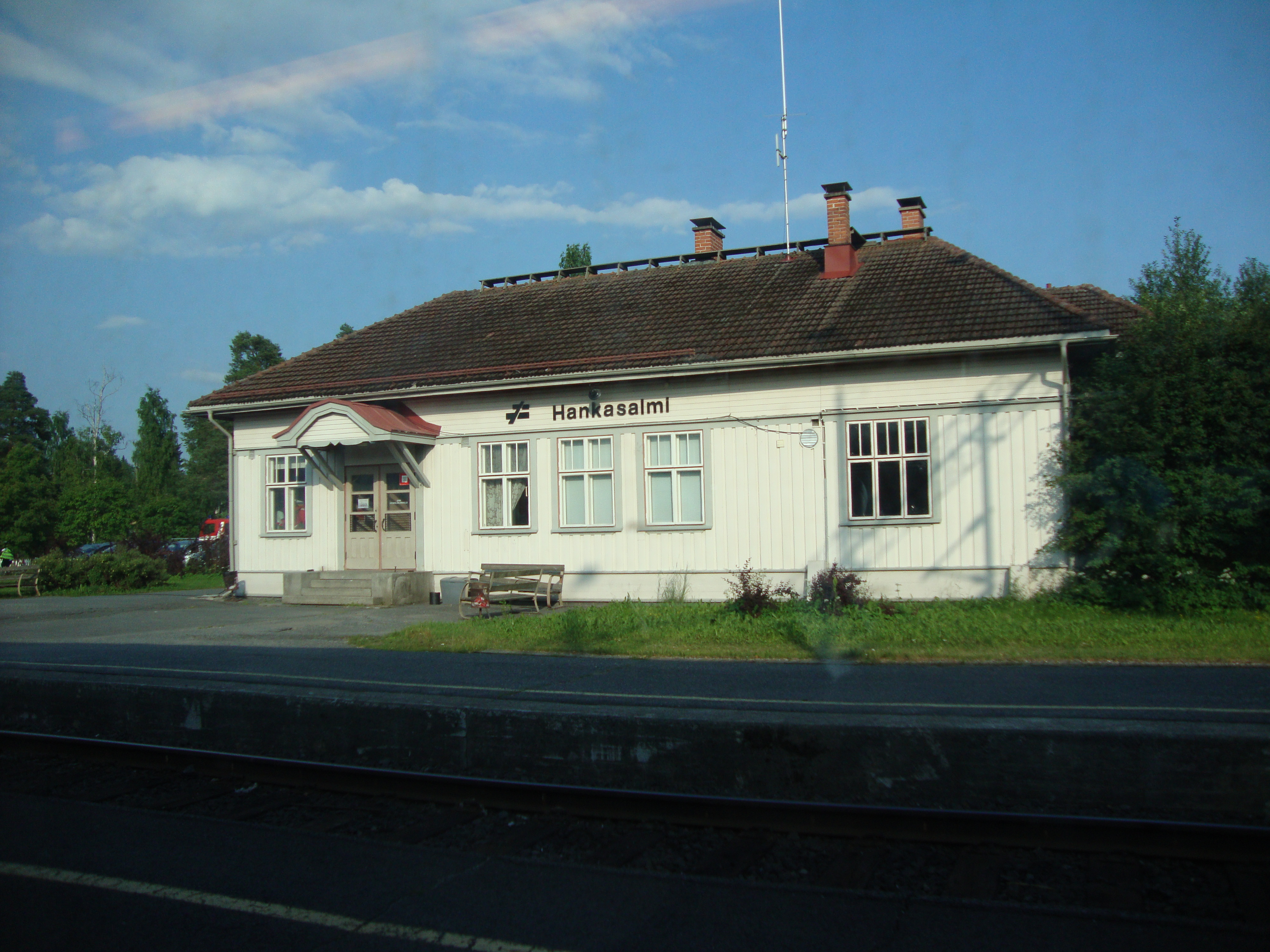 Hankasalmi railway station